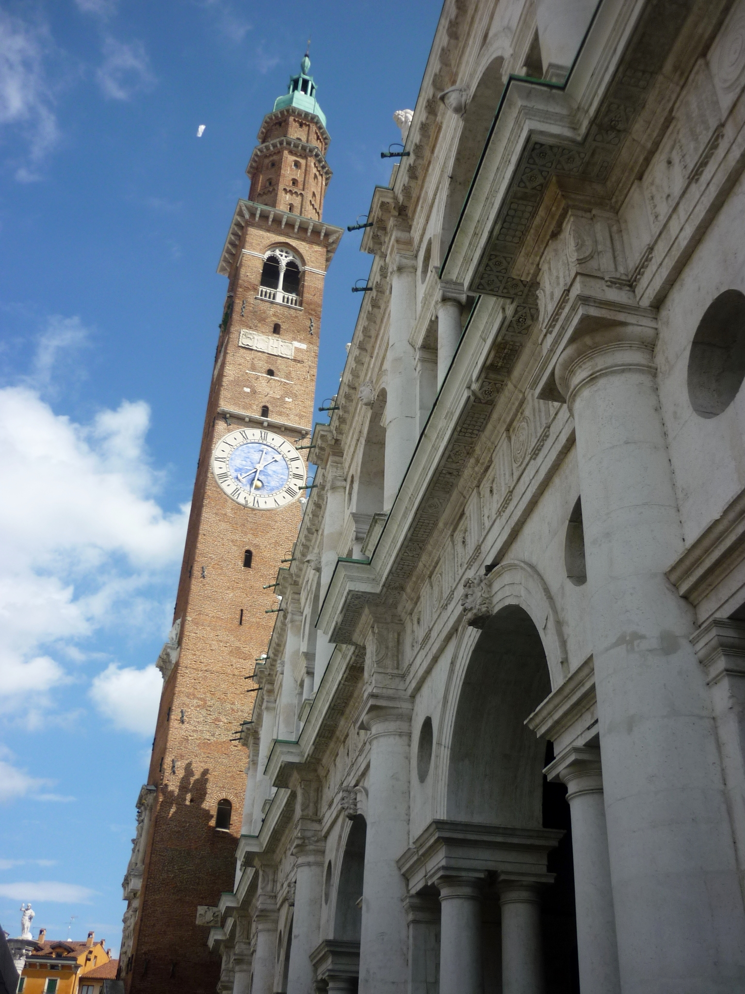 Tower and Basilica Palladiana, Vicenza